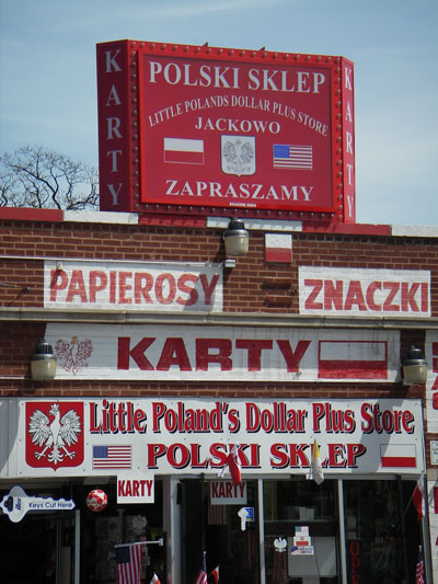 Sklep polski na Milwaukee Avenue, w Chicago. Zdjęcie Marta Sehn. Polish shop at Milwaukee Ave, Chicago Ill. Photo Marta Sehn.